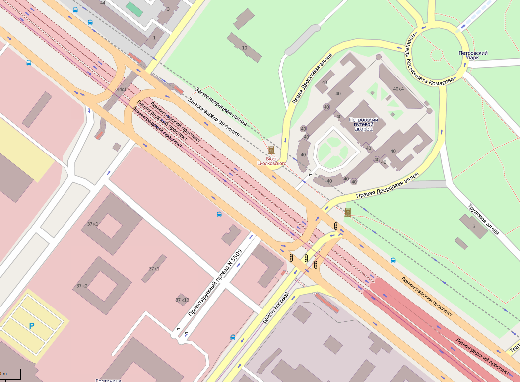 Hodynskiy Transport Tunnel (OSM map)